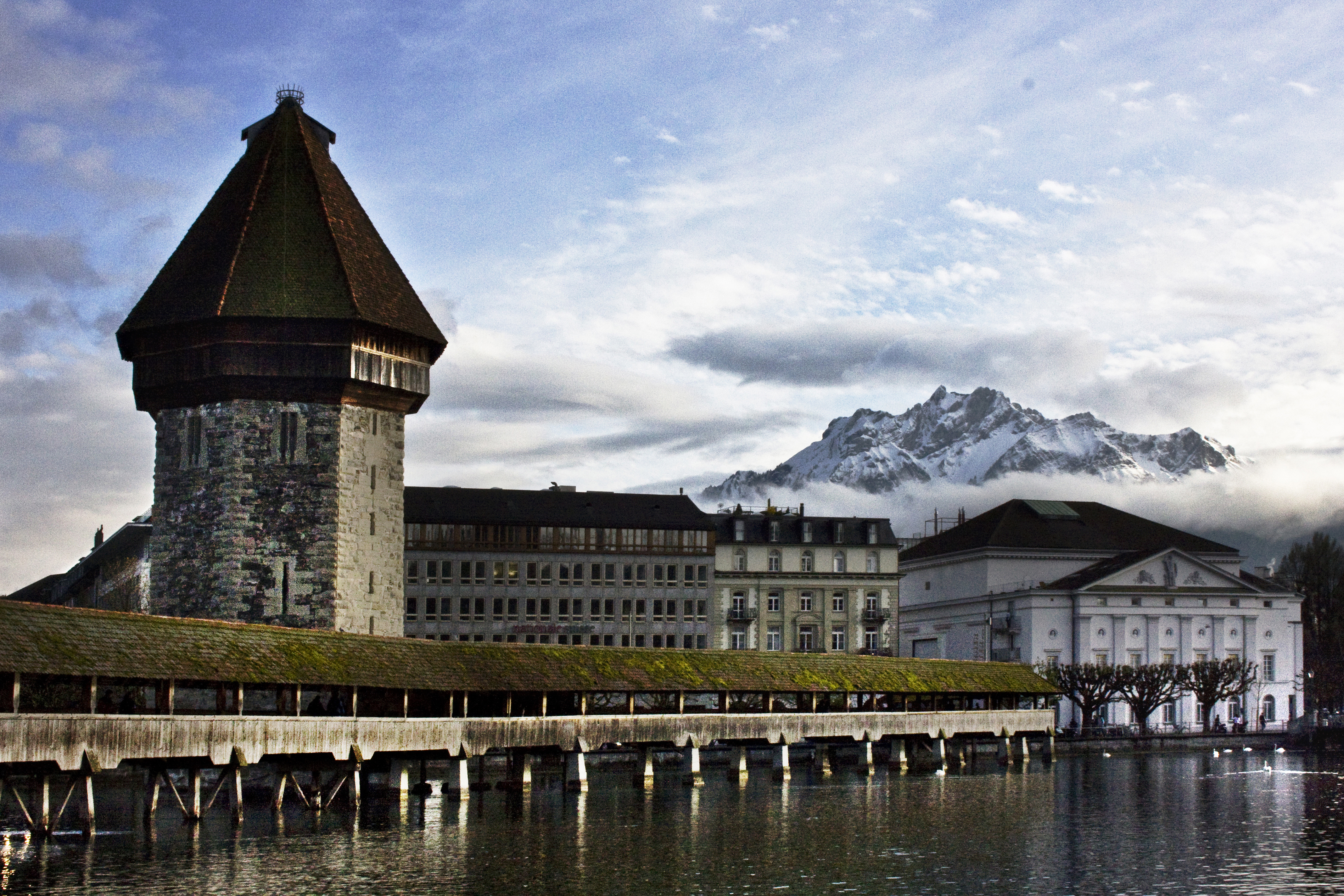 Chapel Bridge over the Reuss in Lucerne (Switzerland). Picture by Horst Michael Lechner